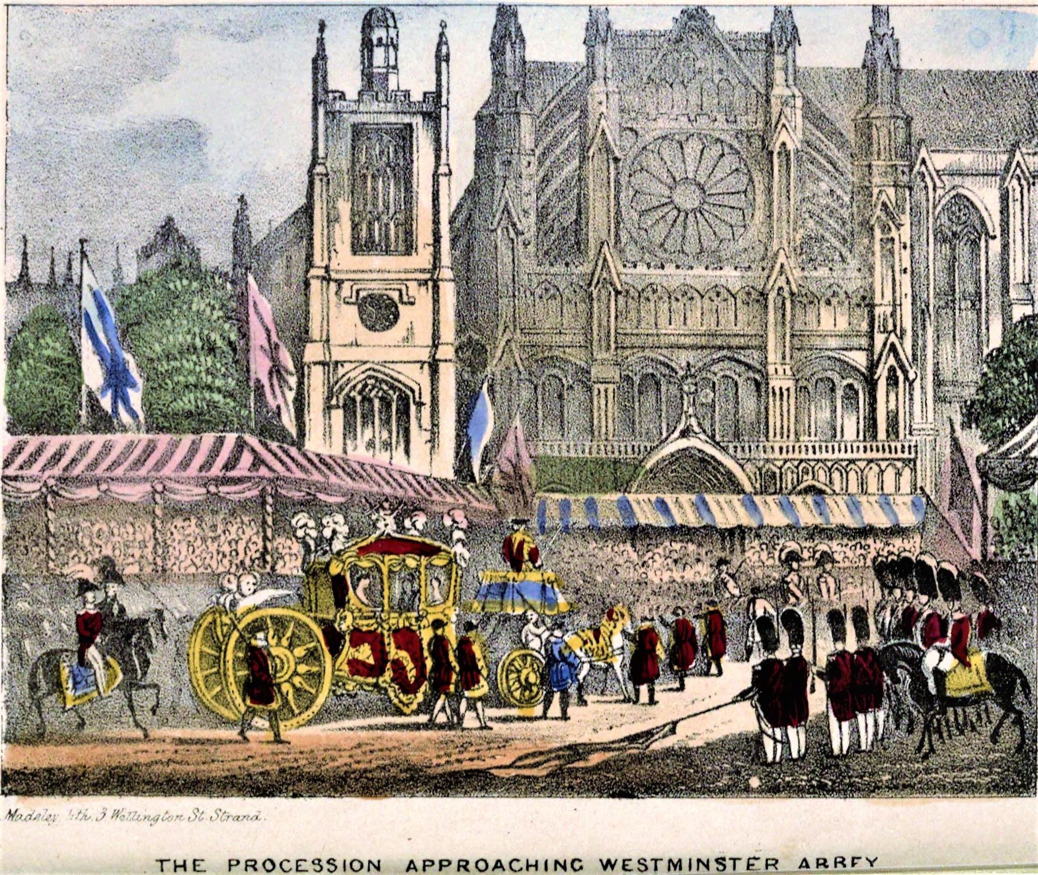 The Procession Approaching Westminster Abbey, from 'Peter Parley's Visit to London' p.65 (1839)